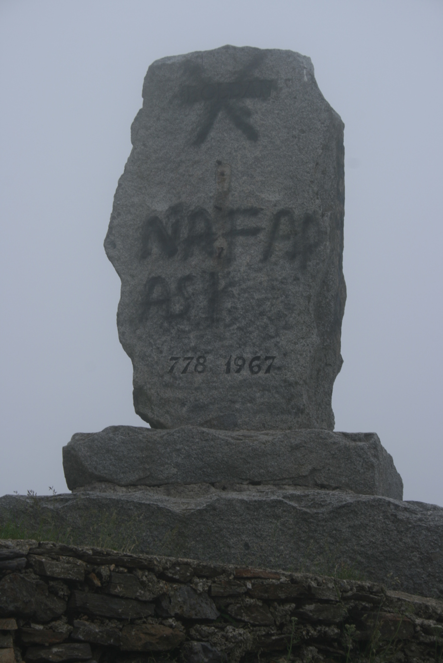 Monument at the pass of Roncesvalles.